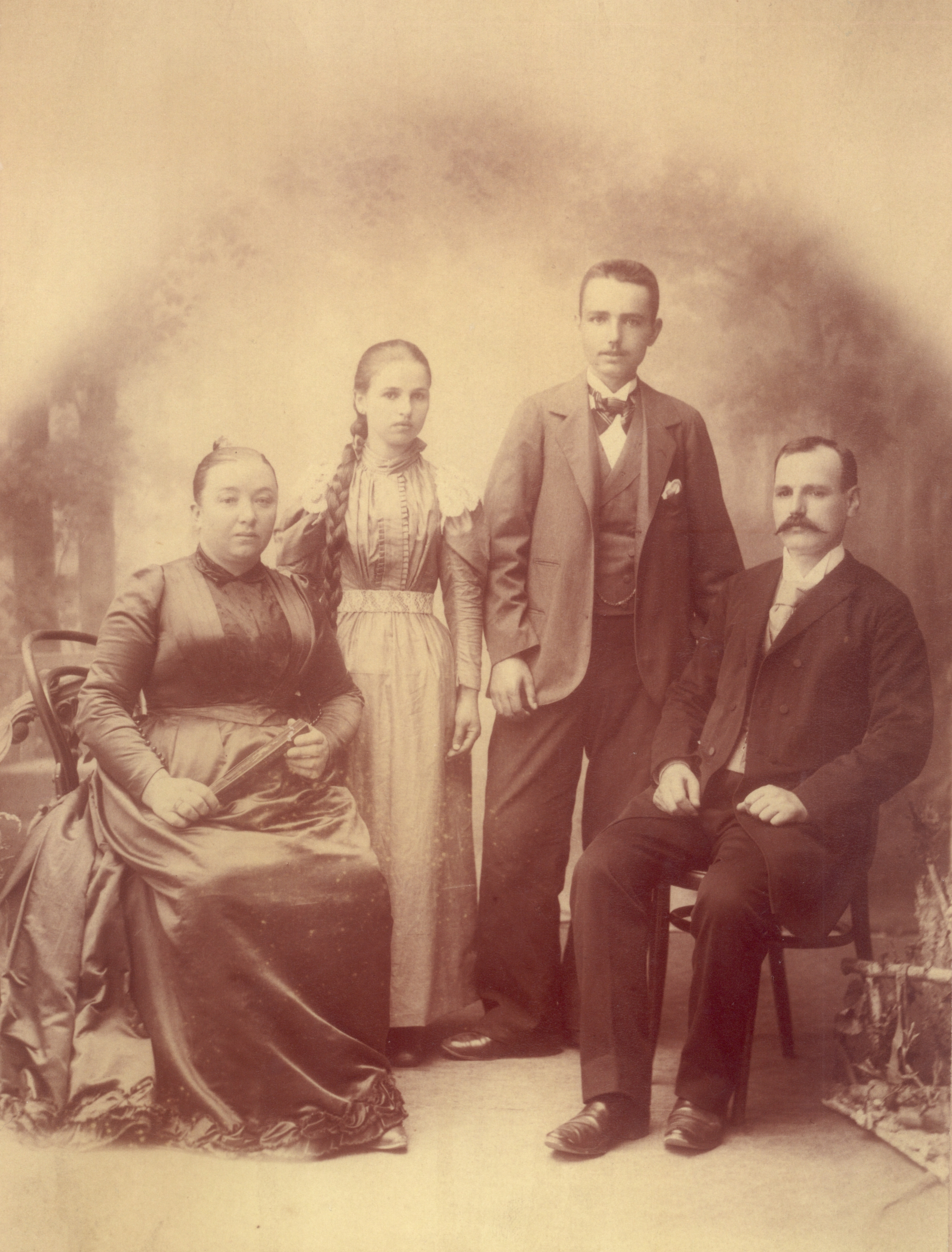 Kone Samardzhiev, Yordan Samardzhiev (standing)